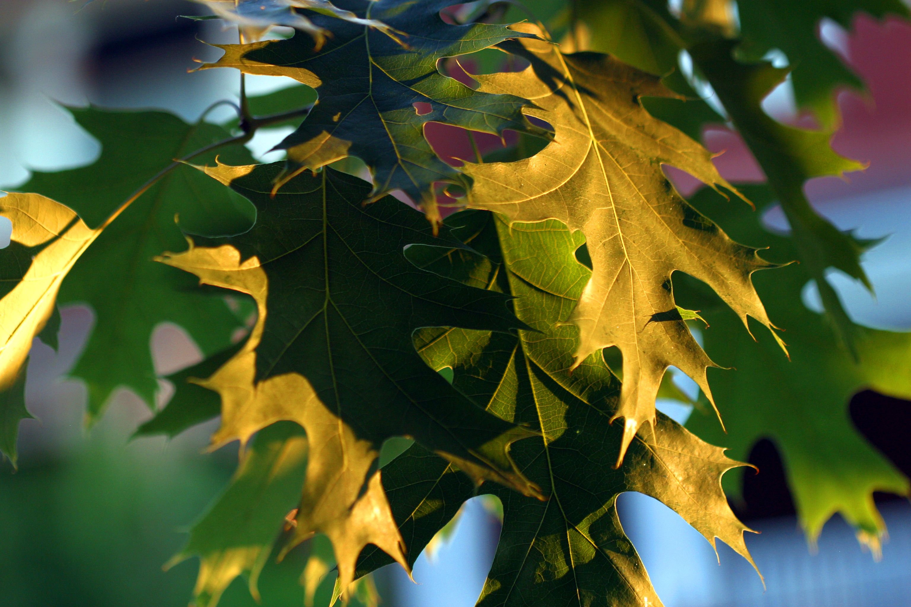 Northern Red Oak leaves in Pittsburgh, USA. Taken by uploader (Tom Murphy VII).